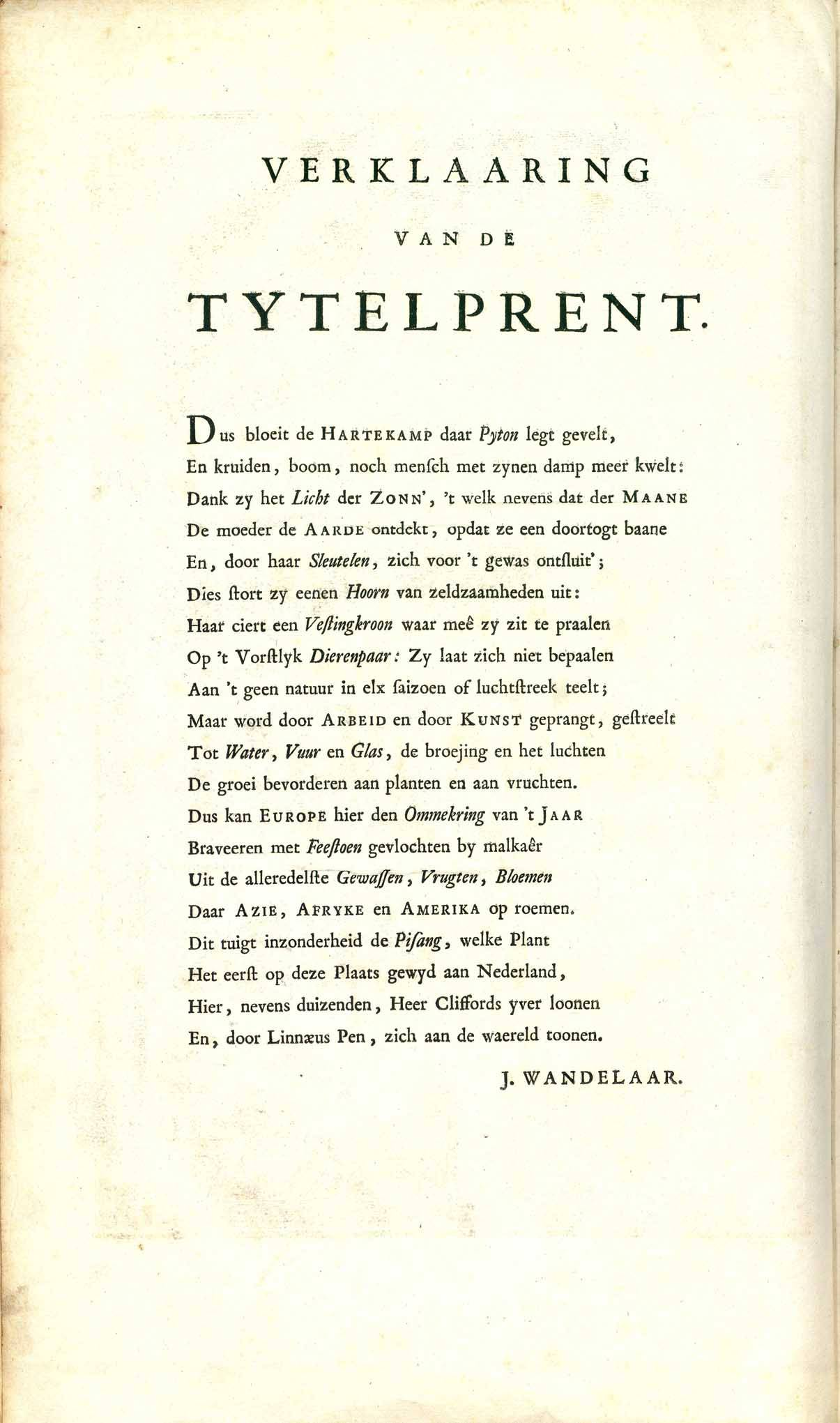 Linnaeus, C. (1738), Hortus Cliffortianus, explanation of the frontispiece, in the form of a poem by Jan Wandelaar.